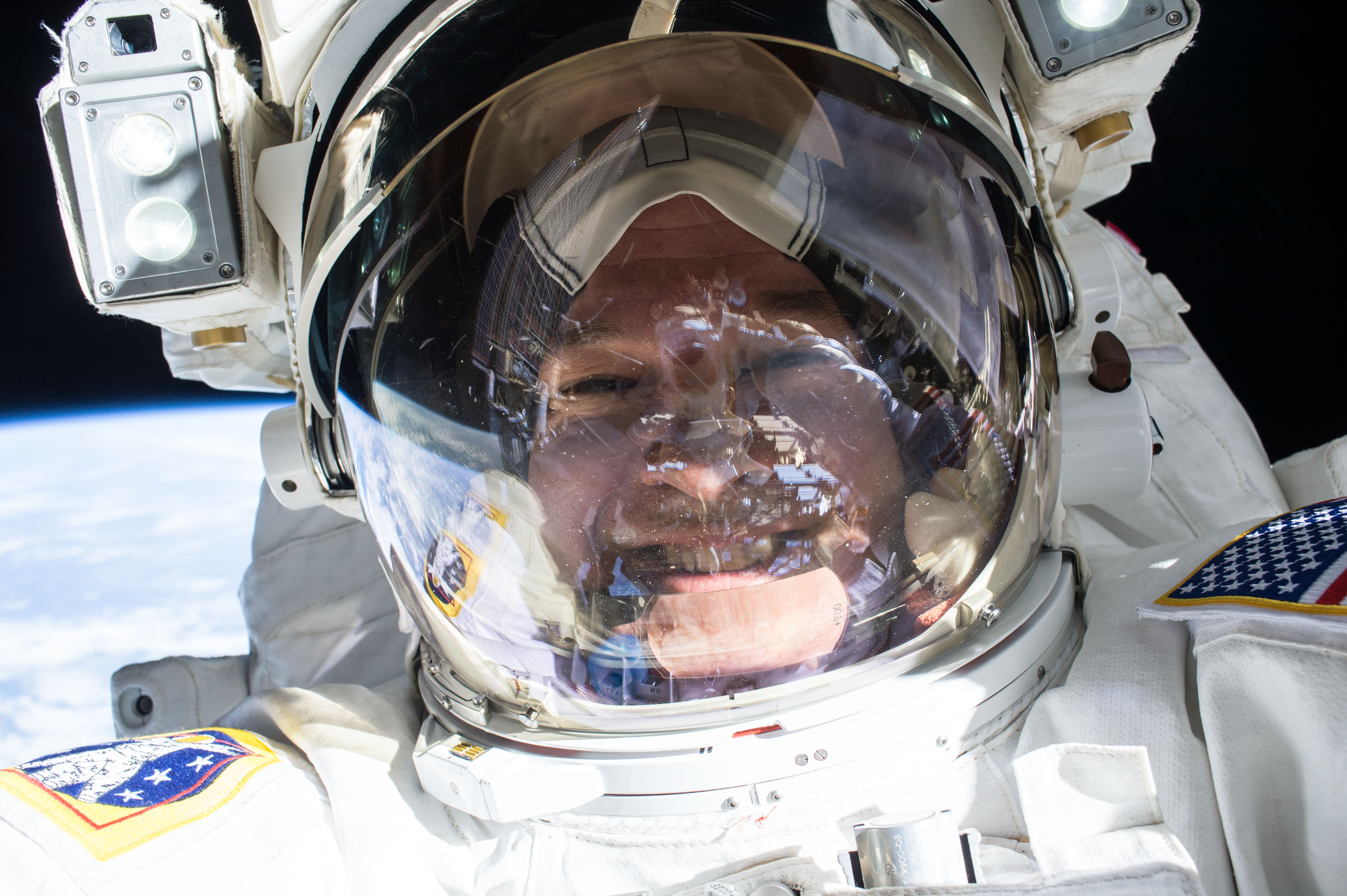 NASA astronaut Jeff Williams takes a moment to capture a "space selfie" while on his final spacewalk outside the International Space Staiton. He and fellow astronaut Kate Rubins were stowing an unused thermal radiator and installing external high-definition cameras to provide better quality views of external activities and approaching spacecraft.